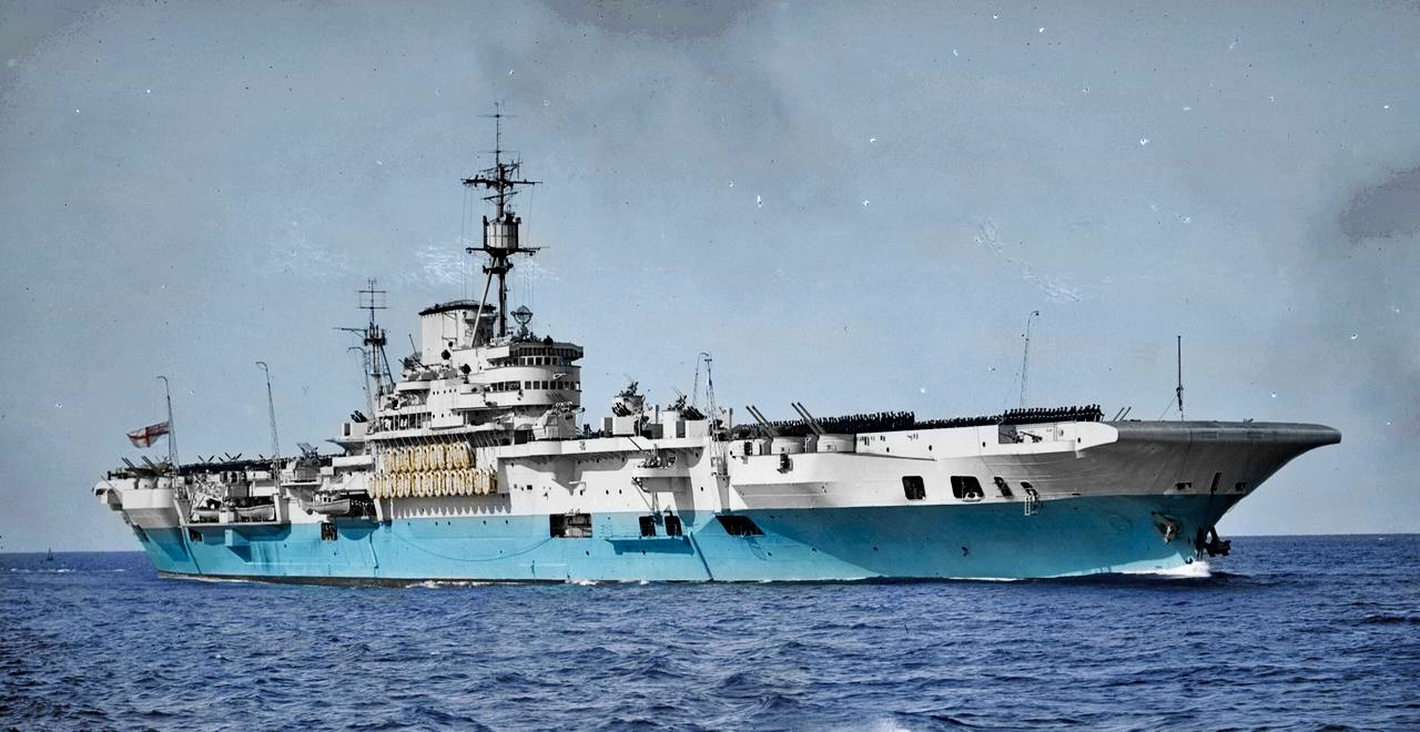 HMS Implacable as seen underway after WW2 in 1946.